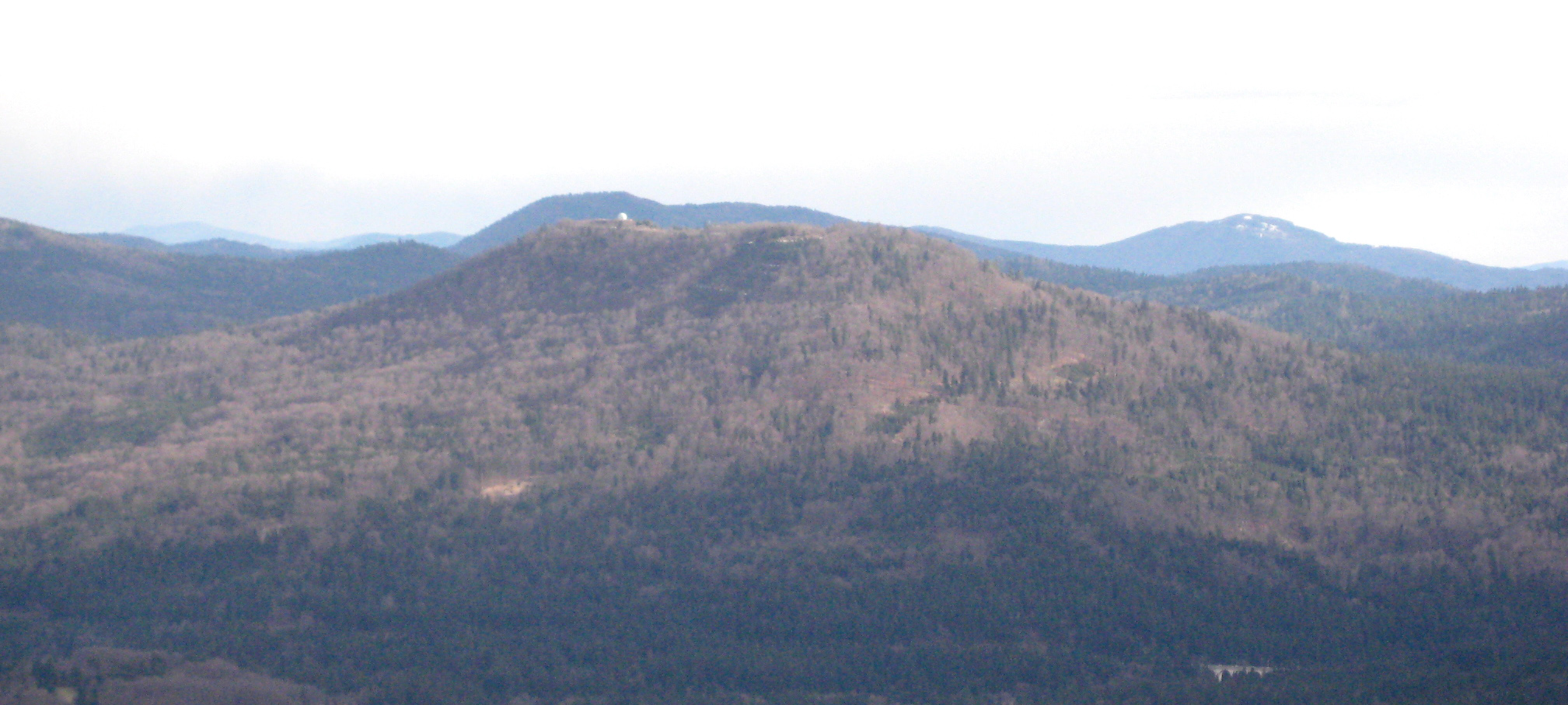 Ljubljanski vrh, hill in Slovenia